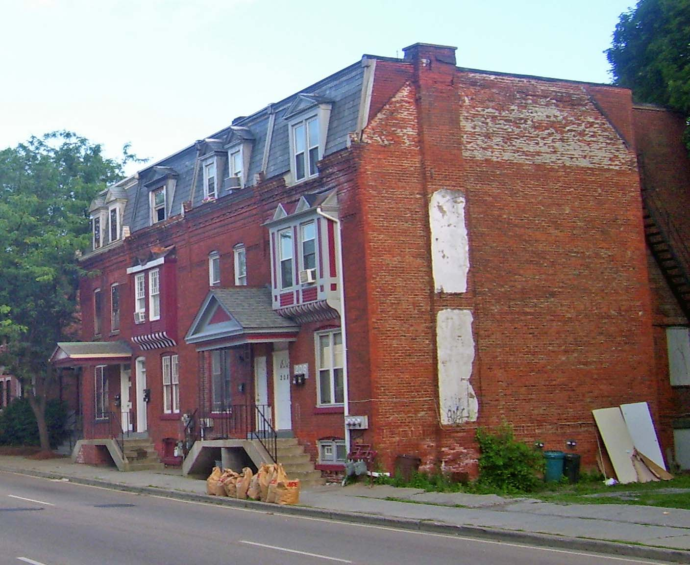 Part of Church Street Row, Poughkeepsie, NY, USA